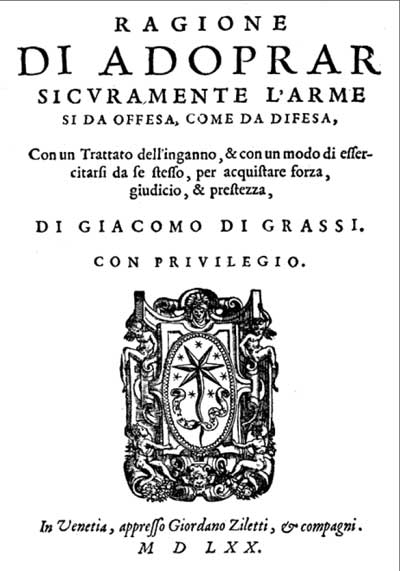 Book cover